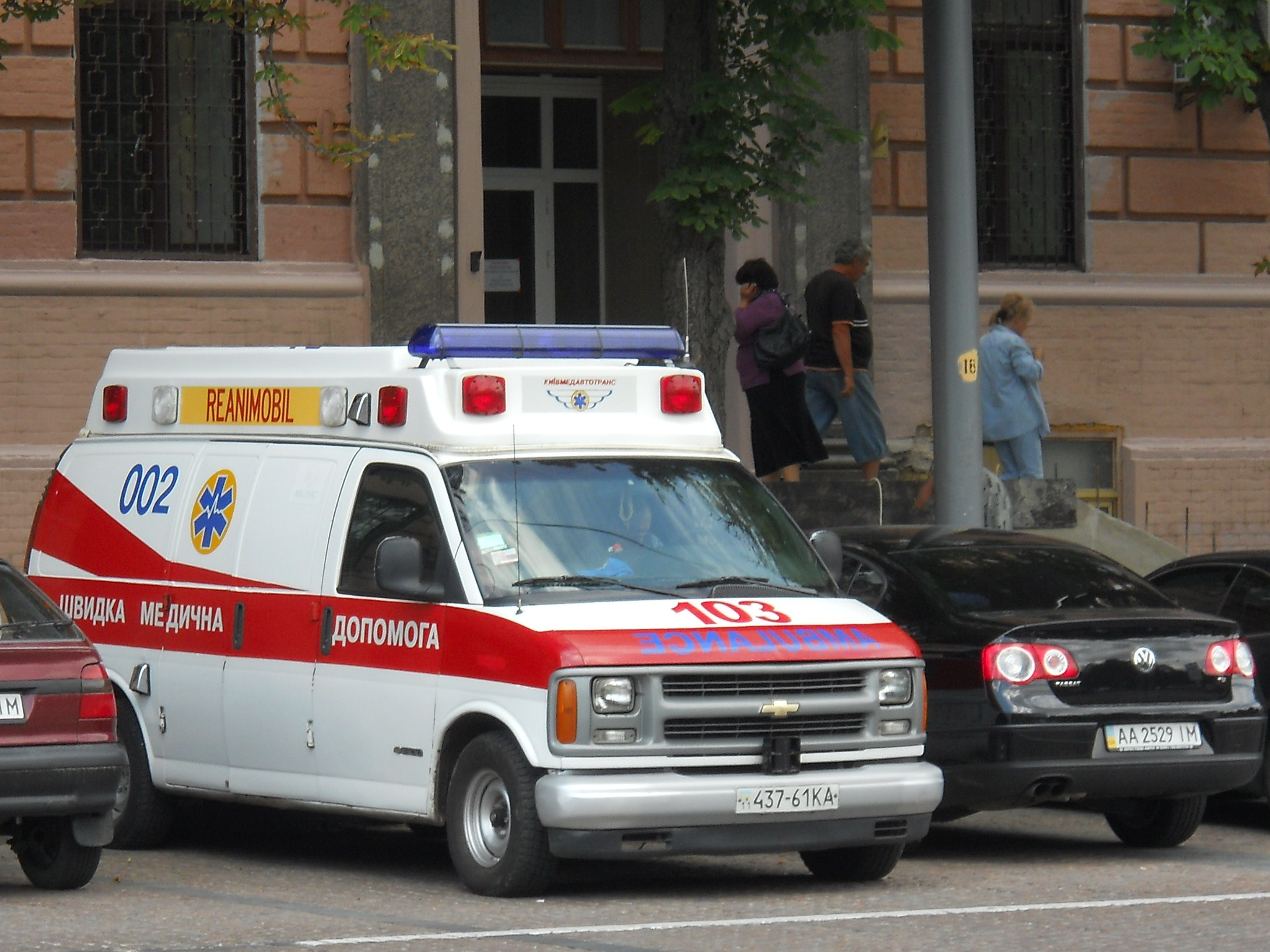 An ambulance in Kiev, Ukraine